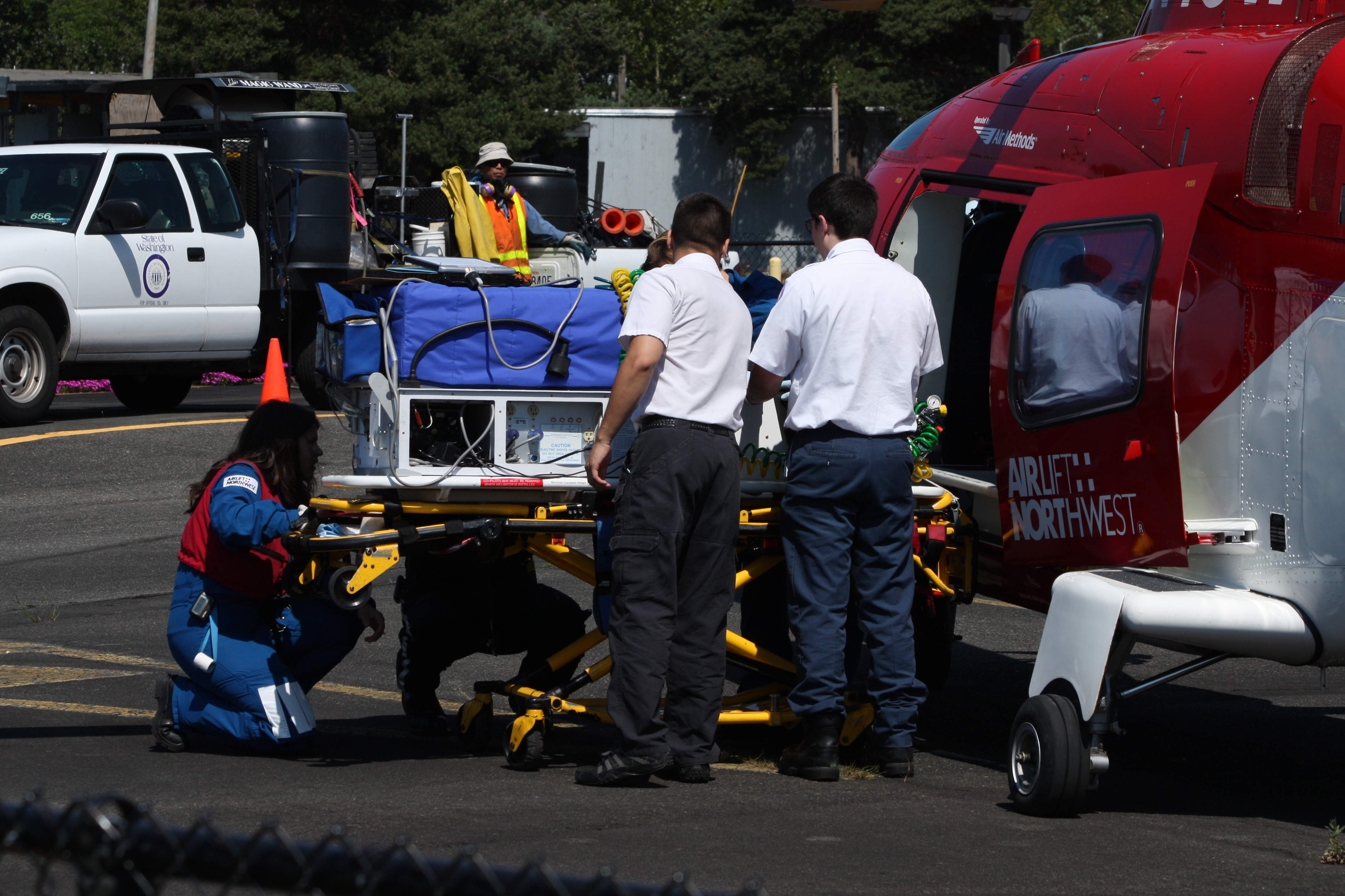 Air Ambulance AGUSTA SPA Model A109E; N1UW; either a premature infant or a child on ECMO, a form of heart/lung machine, is being transferred between hospitals FAA Registry